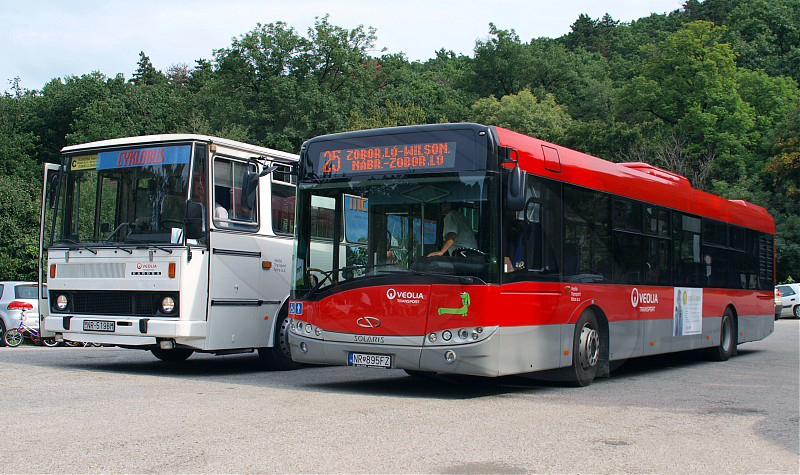 From left to right: Karosa B 731 bus (reg. NR-519BM) and Solaris Urbino 12 bus (reg. NR-895FZ, built 2011) in Nitra, Slovakia. Veolia Transport Nitra operator.